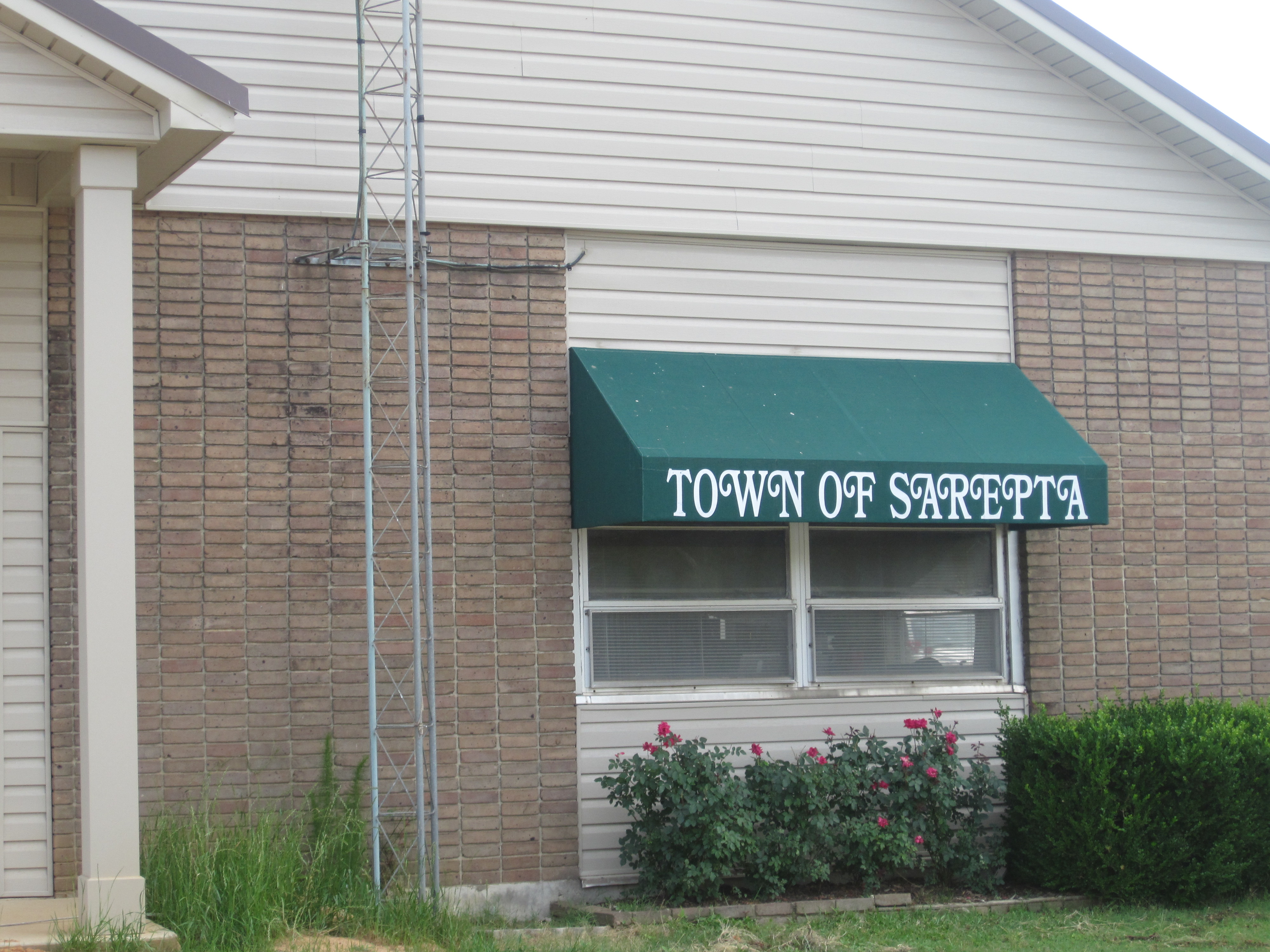 I took picture with Canon camera.